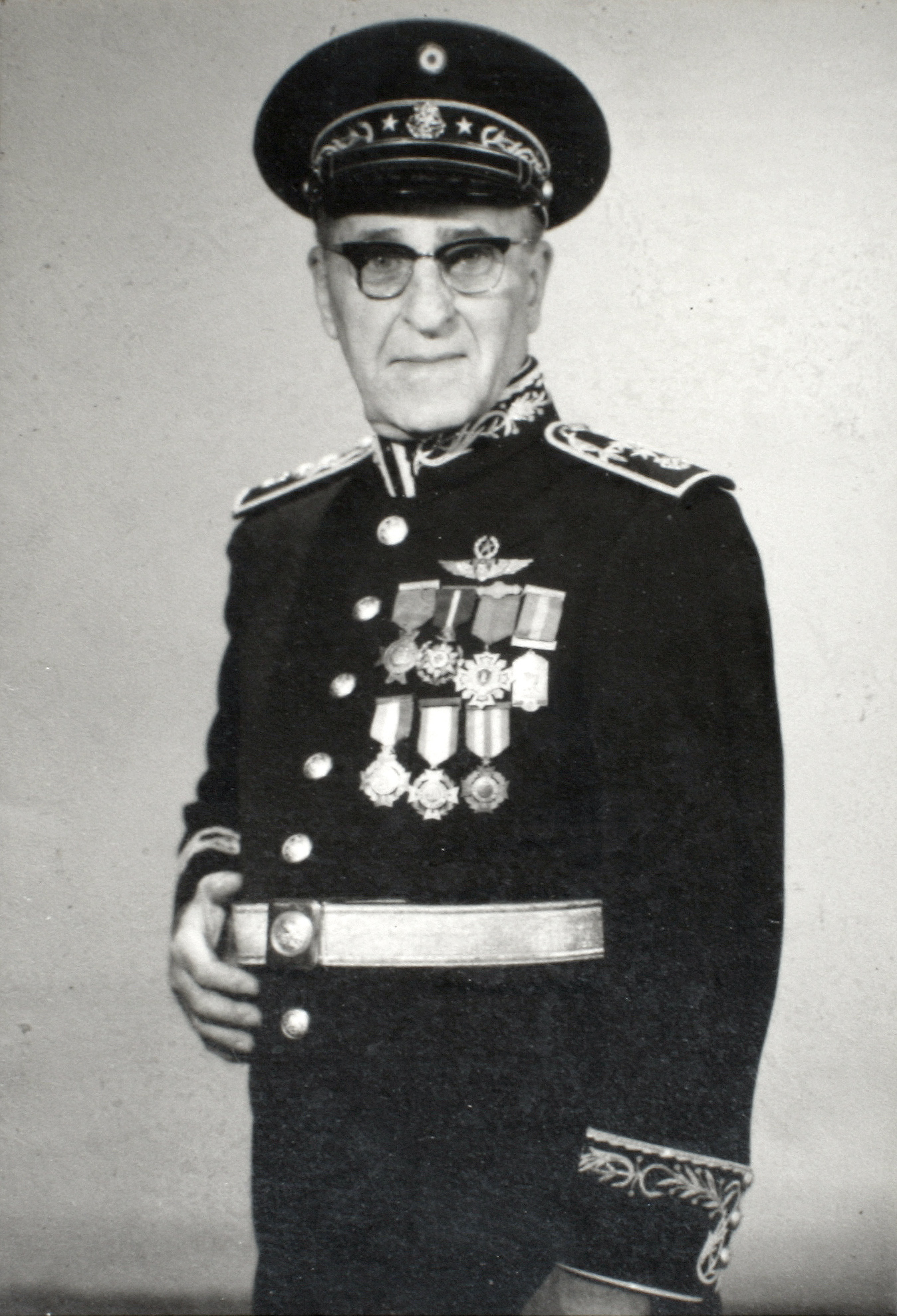 General Luis Farell Cubillas, former combat pilot and Sub-Chief of the Mexican Air Force, 1965.